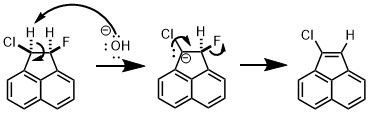 This reaction mechanism shows the preferential elimination of fluorine despite the presence of chlorine, which is typically a better leaving group.